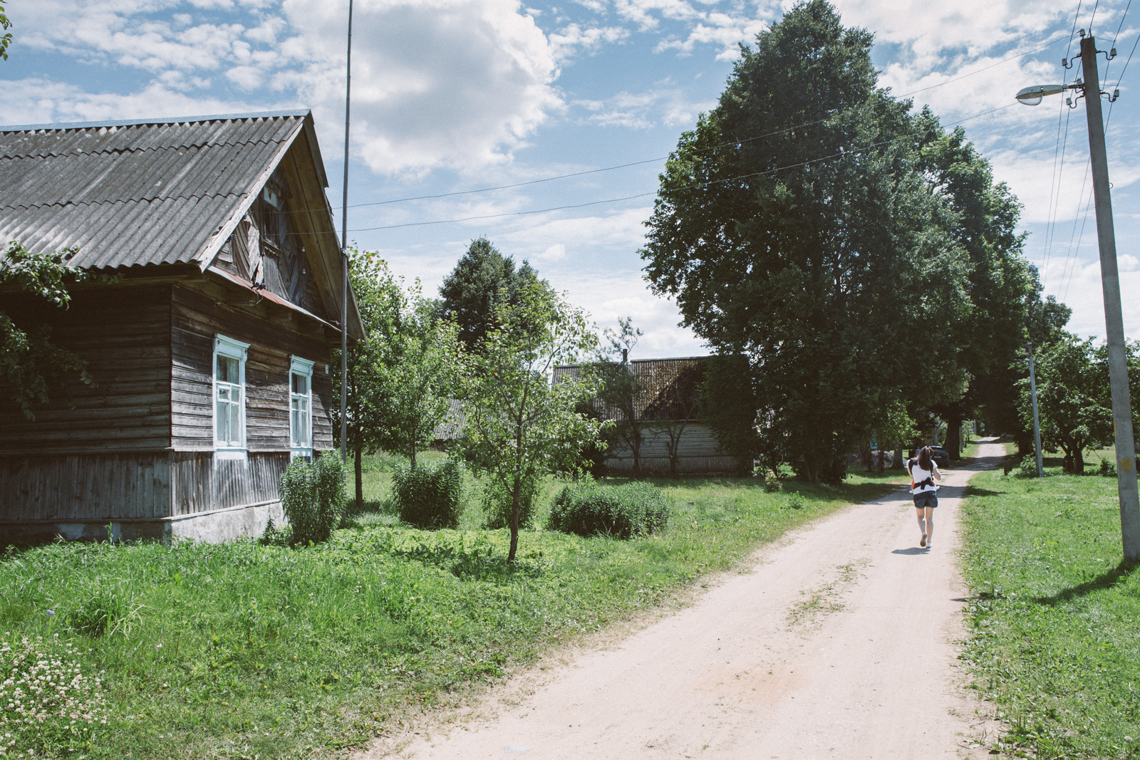 Tinevichy